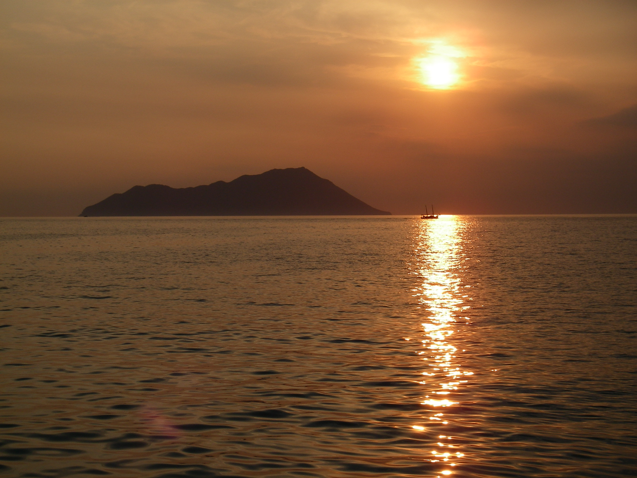 Andimilos Island, Cyclades, Greece